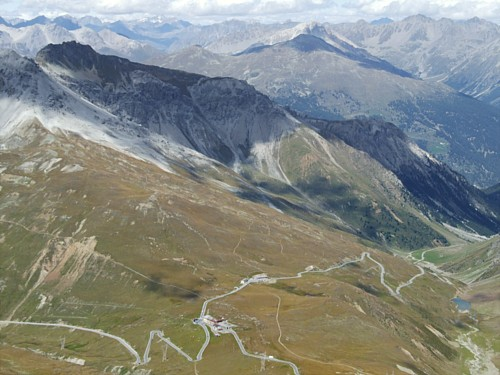 Umbrailpass seen from Monte Scorluzzo Picture taken by user Idéfix , august 24, 2006